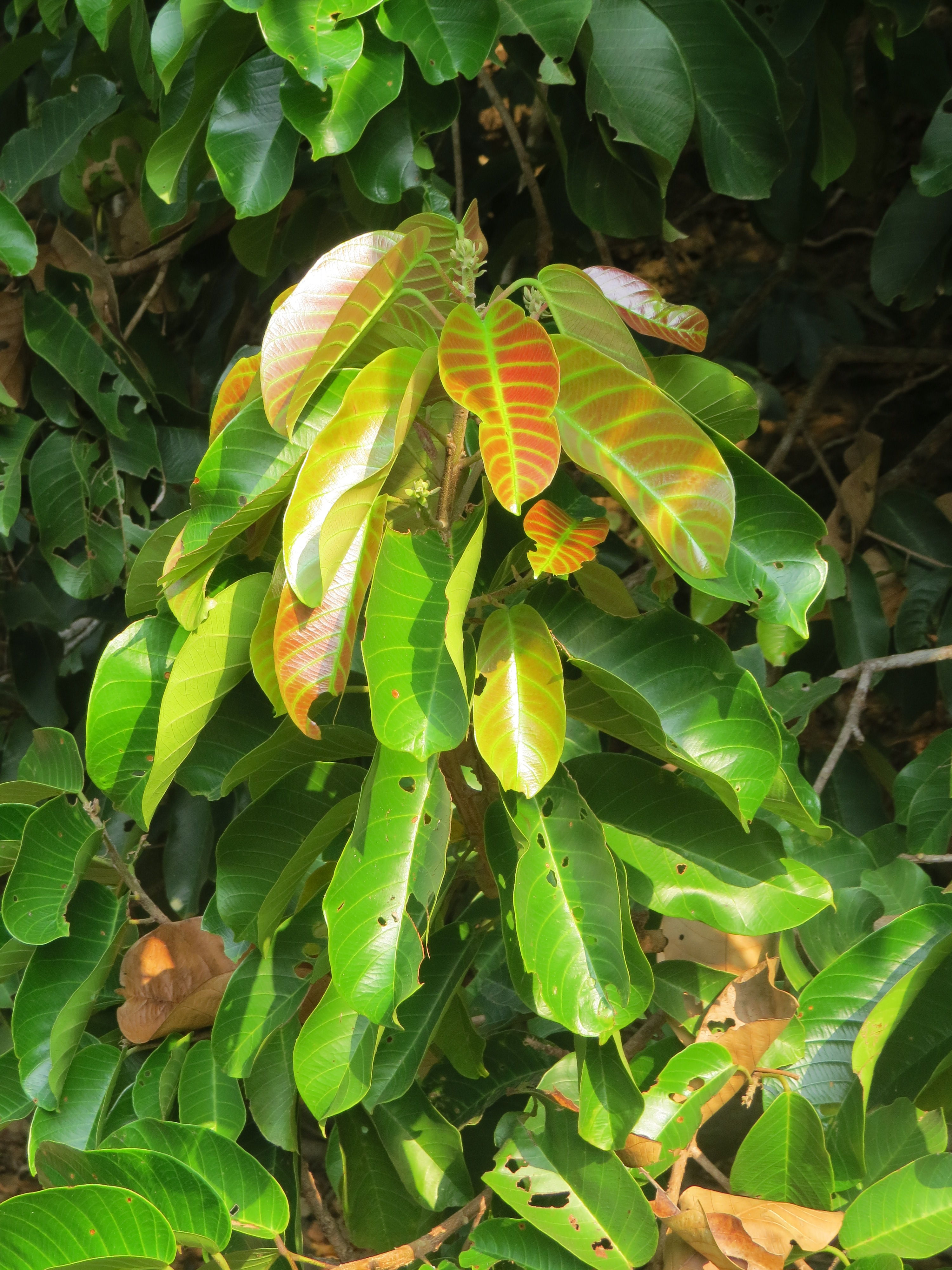 Photos taken during the 2016 Bird Survey at Kottiyoor Wildlife Sanctuary